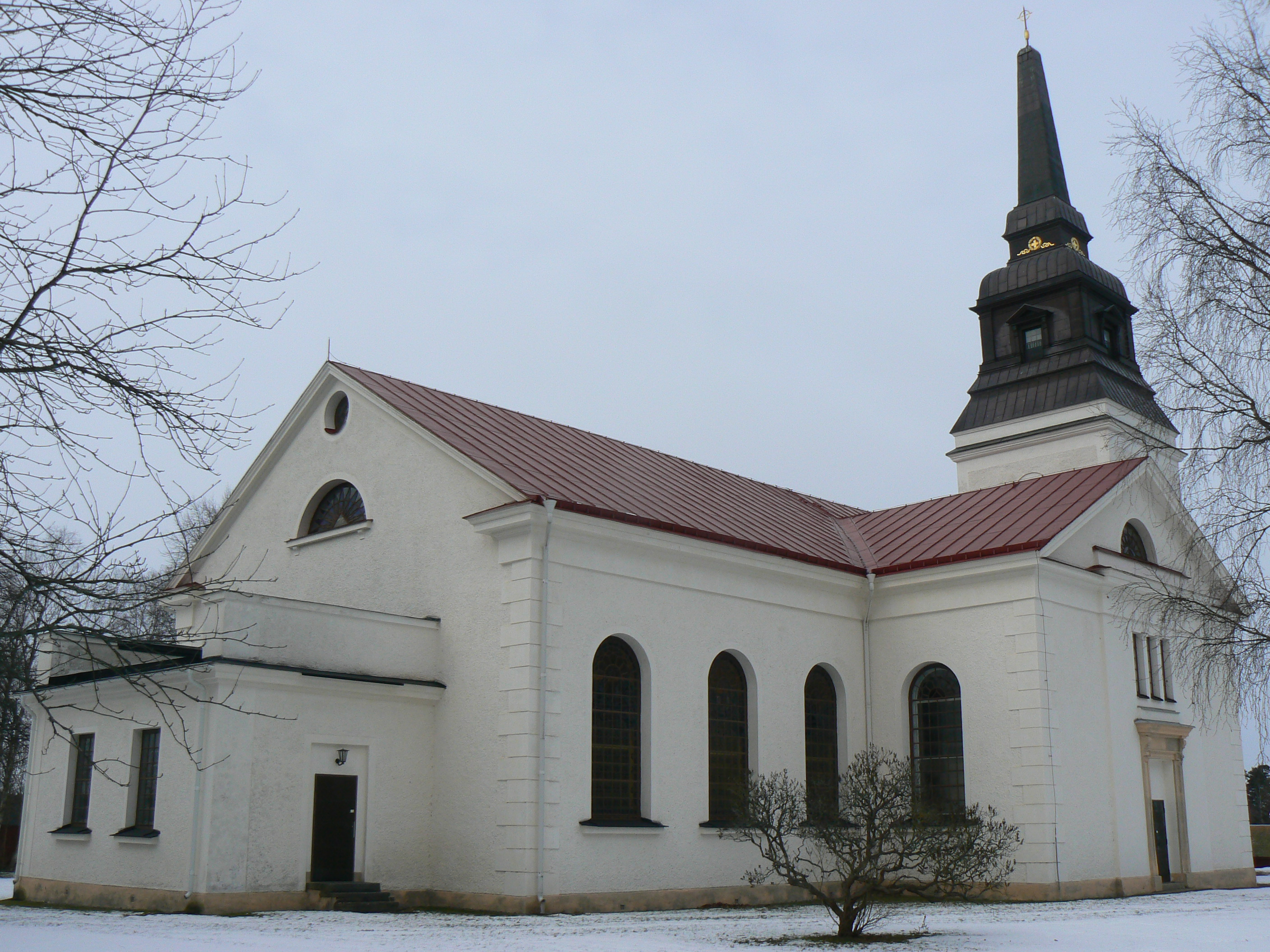 Skärkind Church. Building of Church of Sweden in Skärkind parish, Östergötland. View from southeast.